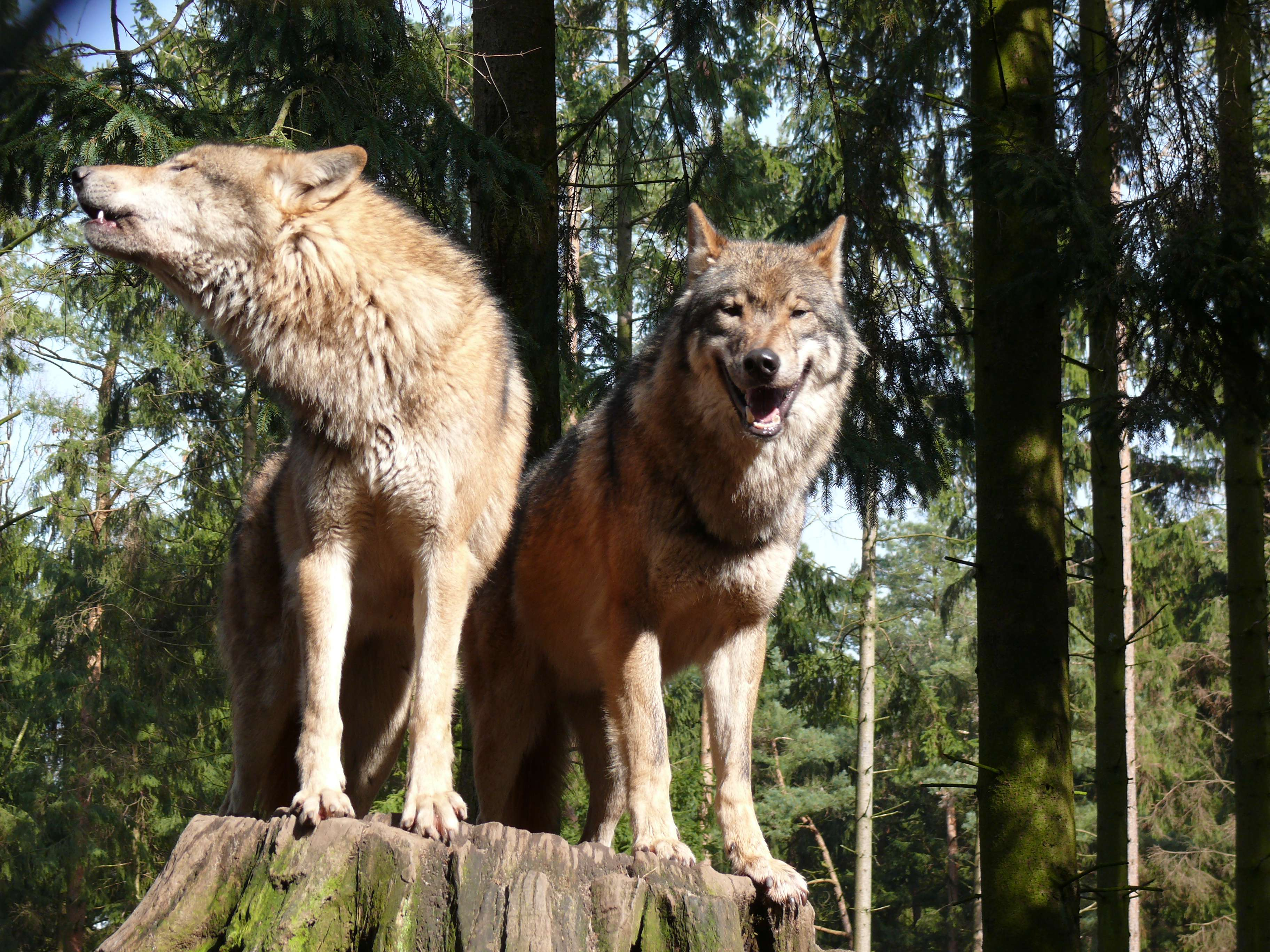 European Wolves.